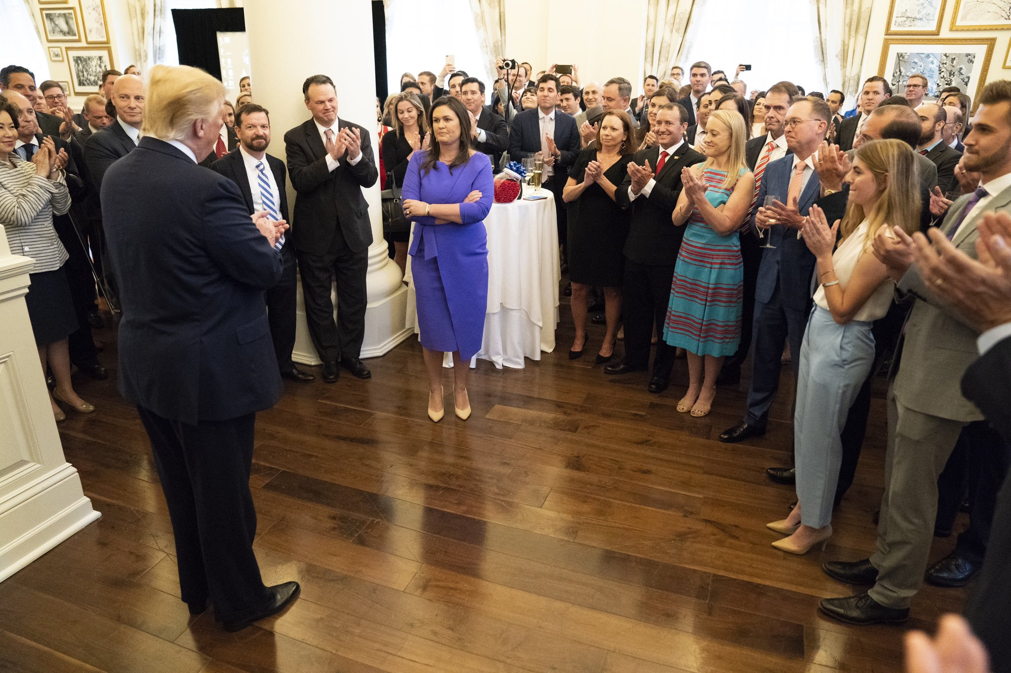 Today I’ll walk out the gates of the White House for the last time as Press Secretary with my head held high. It’s been the honor and privilege of a lifetime to work with President Donald Trump and his amazing team the last three and a half years. You’re the best...Thank you!